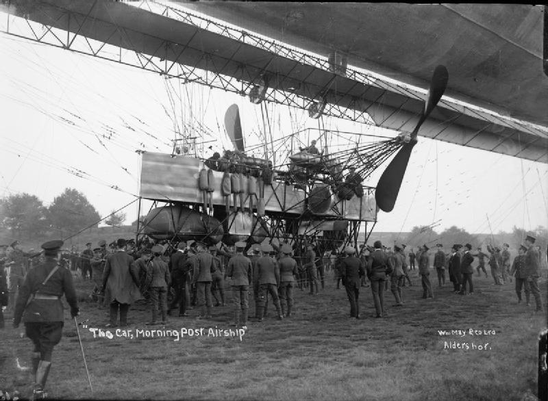 Aviation in Britain Before the First World War The Lebaudy airship gondola surrounded by a large group of soldiers and civilians.